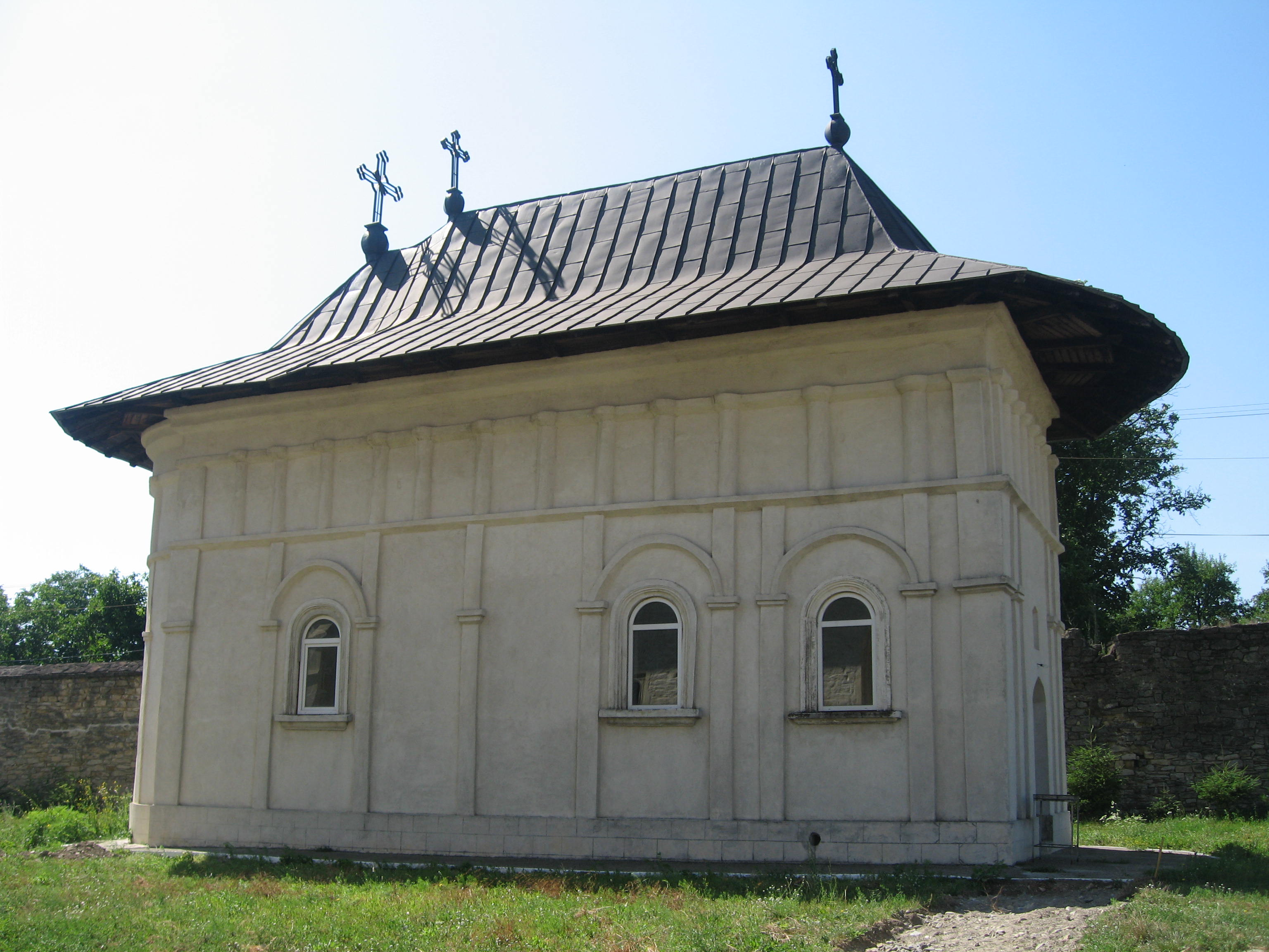 Mănăstirea Dobrovăţ